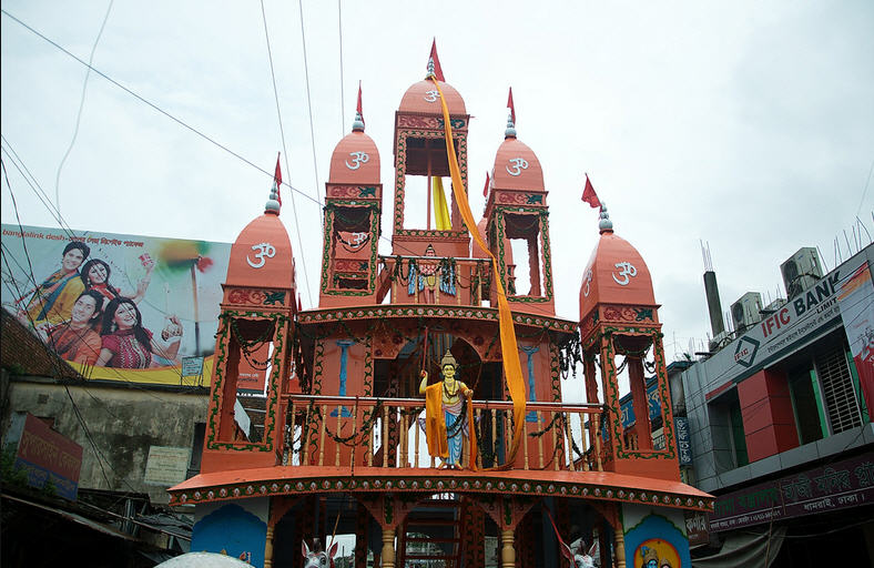 The newly constructed Dhamrai Rath